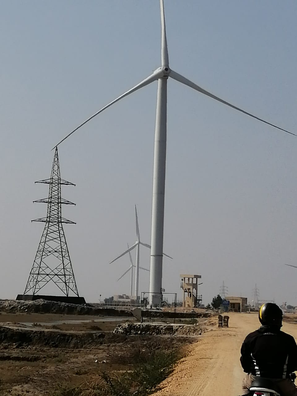 Wind turbine at Gharo, Pakistan.